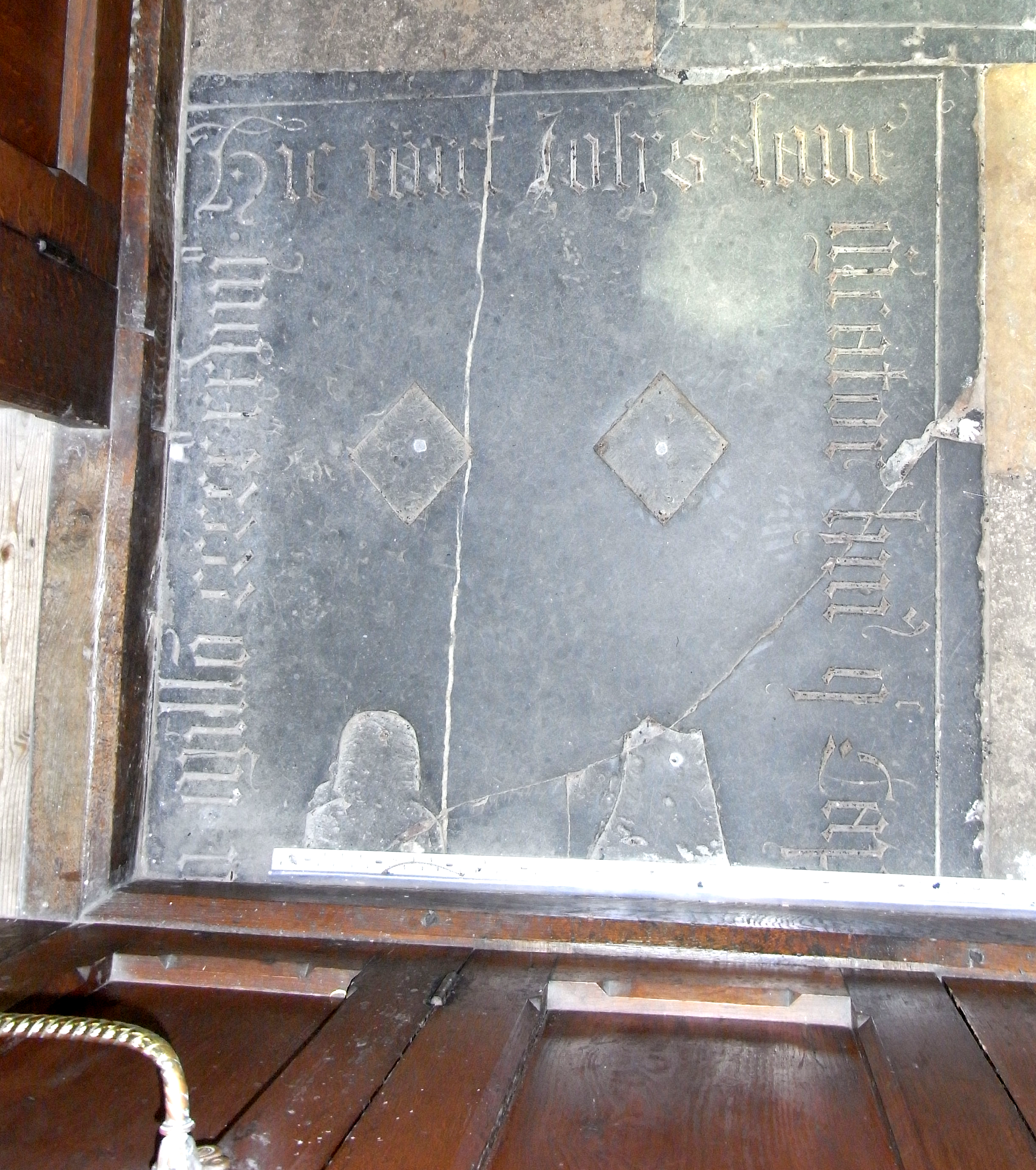 Ledger stone in the Lane Chapel of St Andrew's Church, Cullompton, Devon, of John Lane (died 1529), a wealthy clothier who together with his wife built the magnificent "Lane Chapel" on the south side of St Andrew's Church. He was buried at the east end of his Chapel, where survives his ledger-stone, in the middle of the aisle and now mostly covered by box-pews and missing the monumental brasses of which only the matrices remain, in the shapes of a man and a woman, wearing a headdress, facing each other, the man on the left and his wife on the right, with two lozenge-shaped heraldic shields above, also missing their brasses. The heads of the figures face the west-end of the Chapel. The ledger-line is inscribed in Latin as follows: Hic jacet Joh(anne)s Lane, M(er)cator, huiusq(ue) capellae fundator cum Thomasi(n)a uxore sua, qui dict(us) Johan(nes) obi(i)t XV Feb(ruarii) annoque Dom(ini) mill(ensim)o CCCCCXXVIII. (Source: Cooke, George Alexander, Topography of Great Britain, 1802-29Cooke, George Alexander, Topography of Great Britain, 1802-29; Also transcribed less accurately in Westcote, Thomas, A View of Devonshire in 1630 with a Pedigree of most of its Gentry, Exeter, 1845, p.115[1]). Translation: "Here lies John Lane, merchant, founder of this chapel, with Thomasine his wife, which said John died on the 15th (day) of February in the year of our Lord the one thousandth five hundredth and twenty eighth".